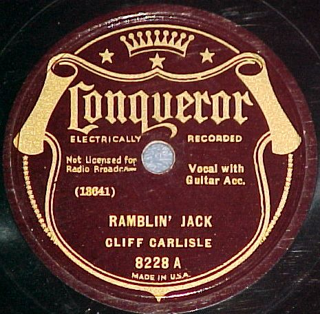 Ramblin' Jack by Cliff Carlisle, Conqueror 1933.